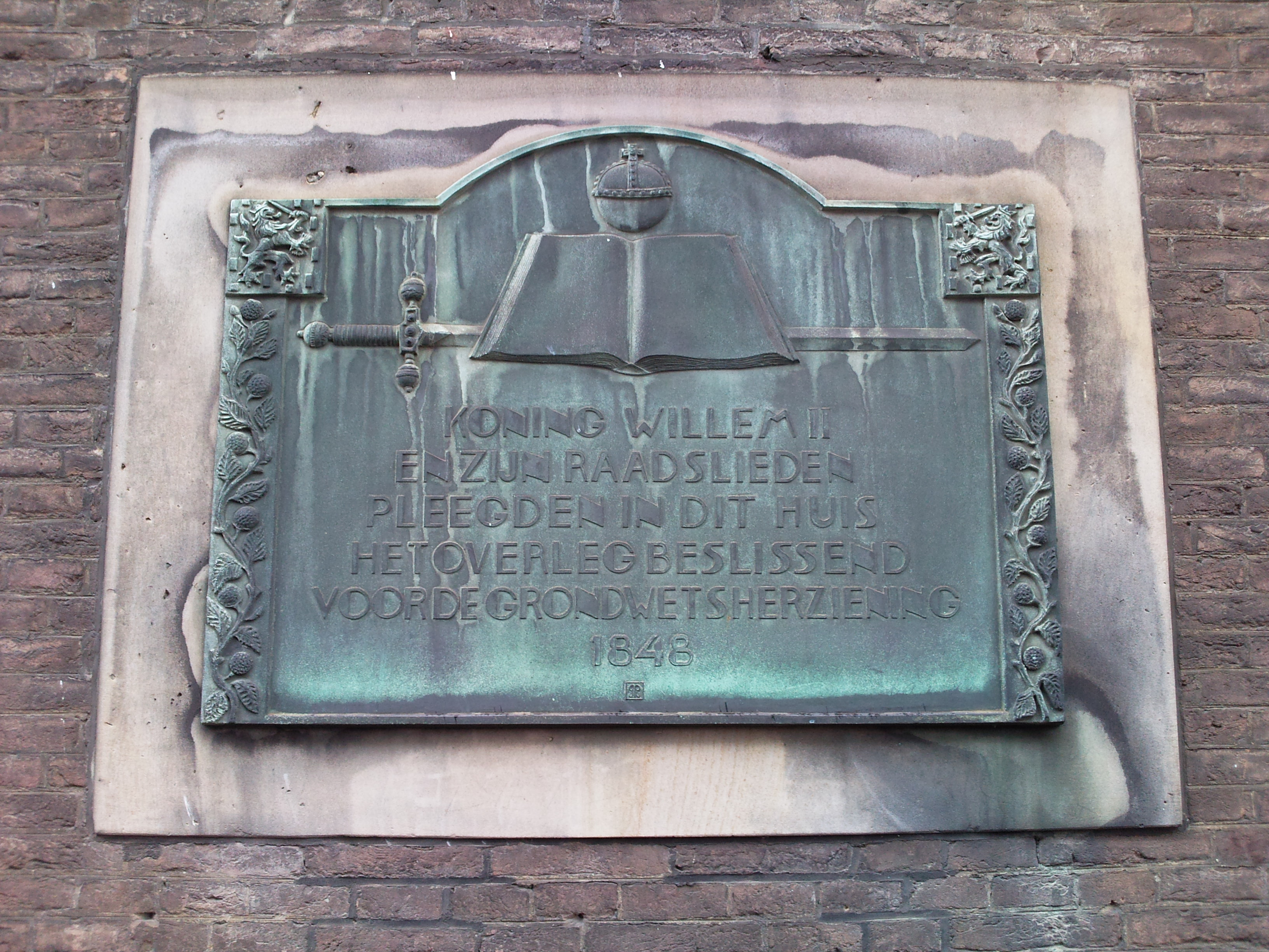 Commemoration stone new constitution 1848, Kneuterdijk, Netherlands